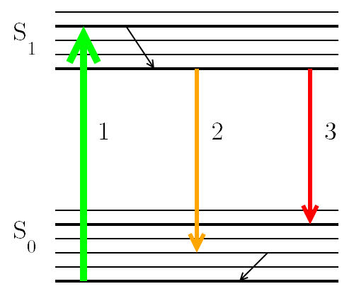 Jablonsky diagram illustrating stimulated emission process for STED microscopy.